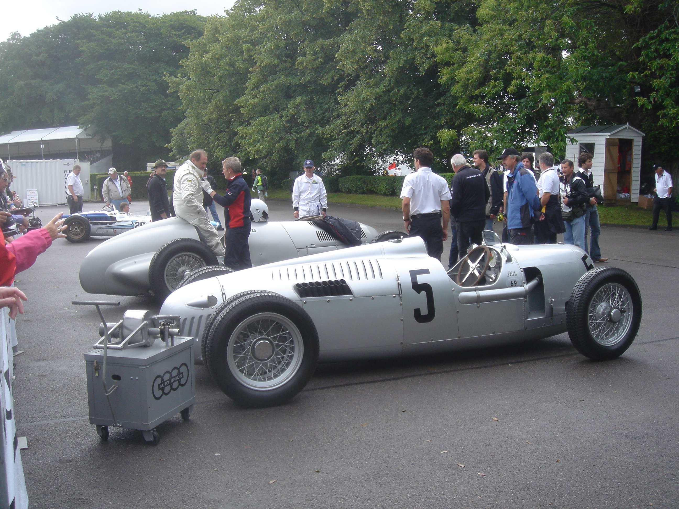 Goodwood Festival of Speed 2007 - Auto Union and Mercedes silver arrows prepare for start